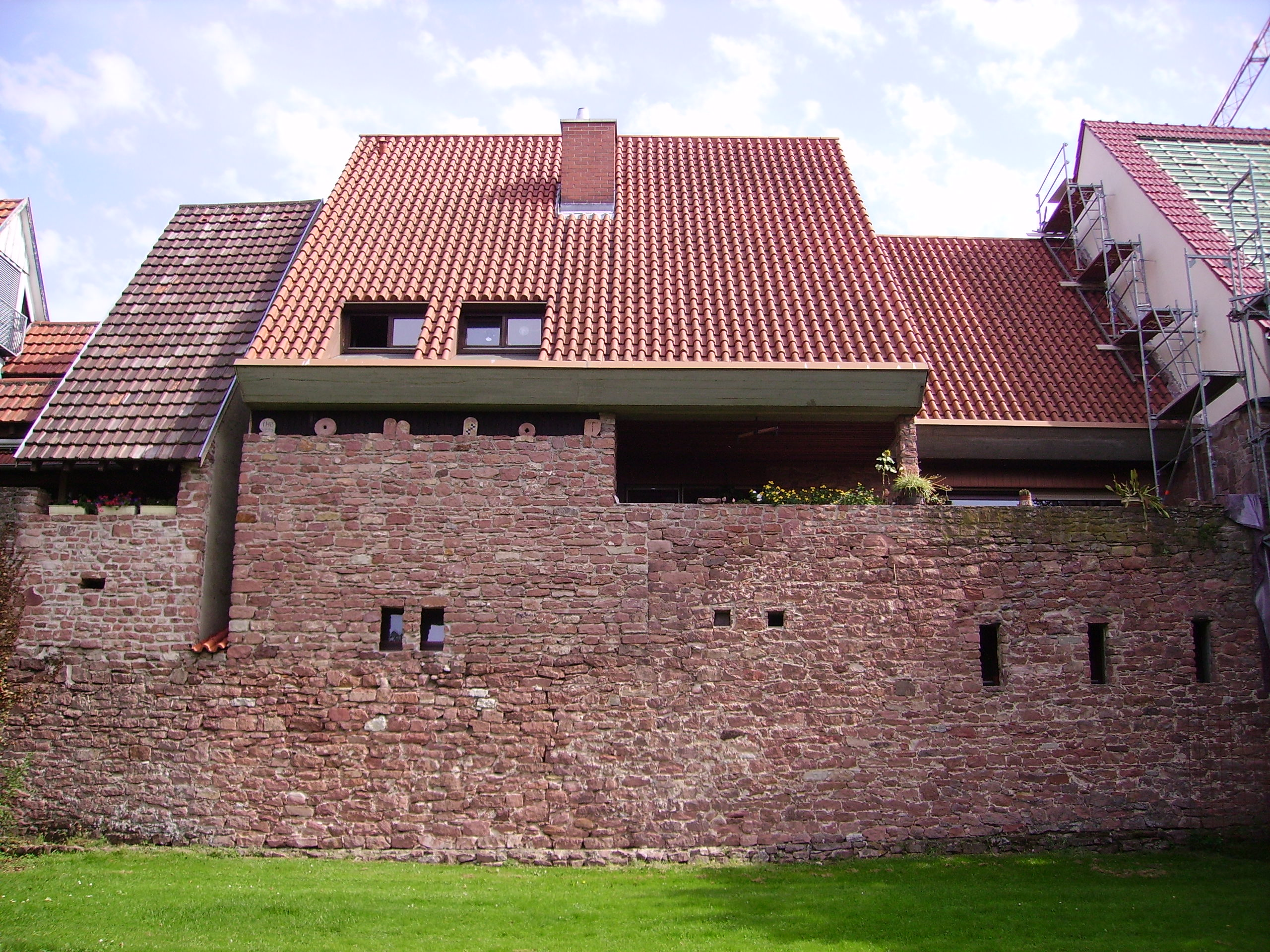 historic town of Ladenburg near Heidelberg, Germany